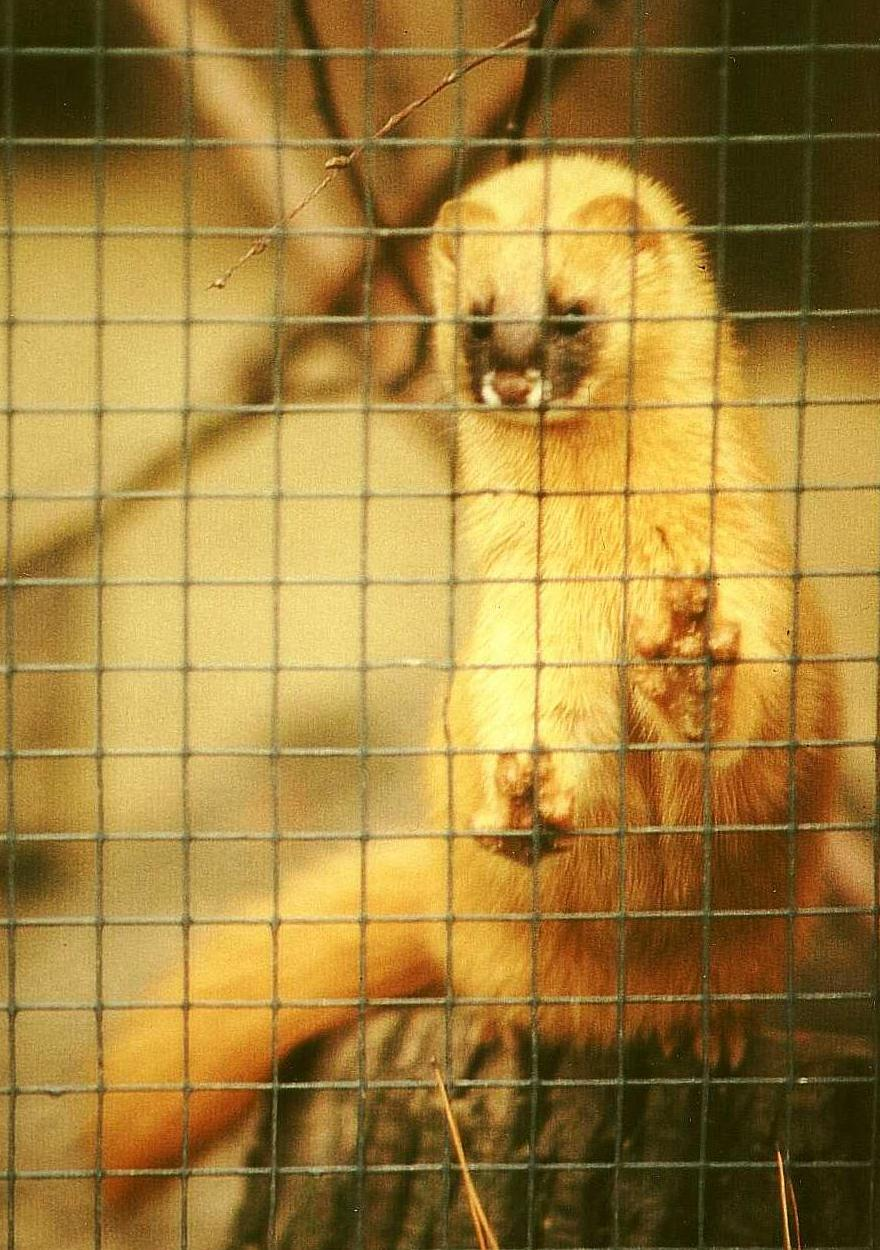 Siberian Weasel (Mustela sibirica), Zoo Dresden